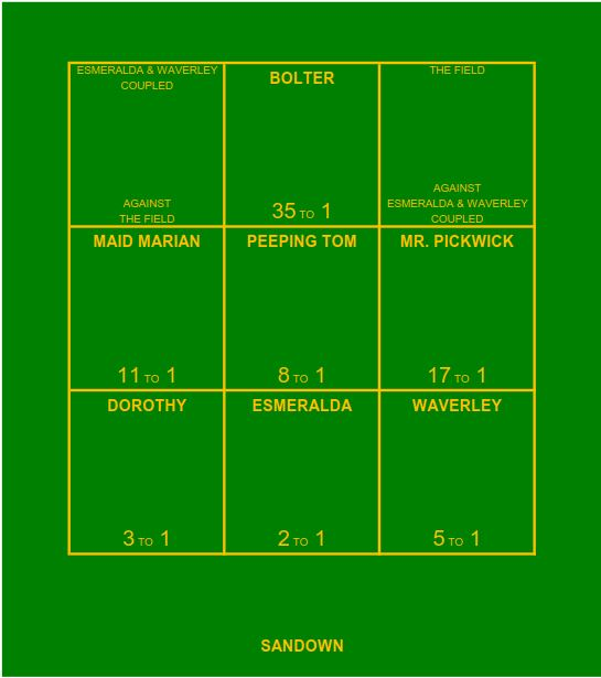 Tableau for the gambling game Sandown